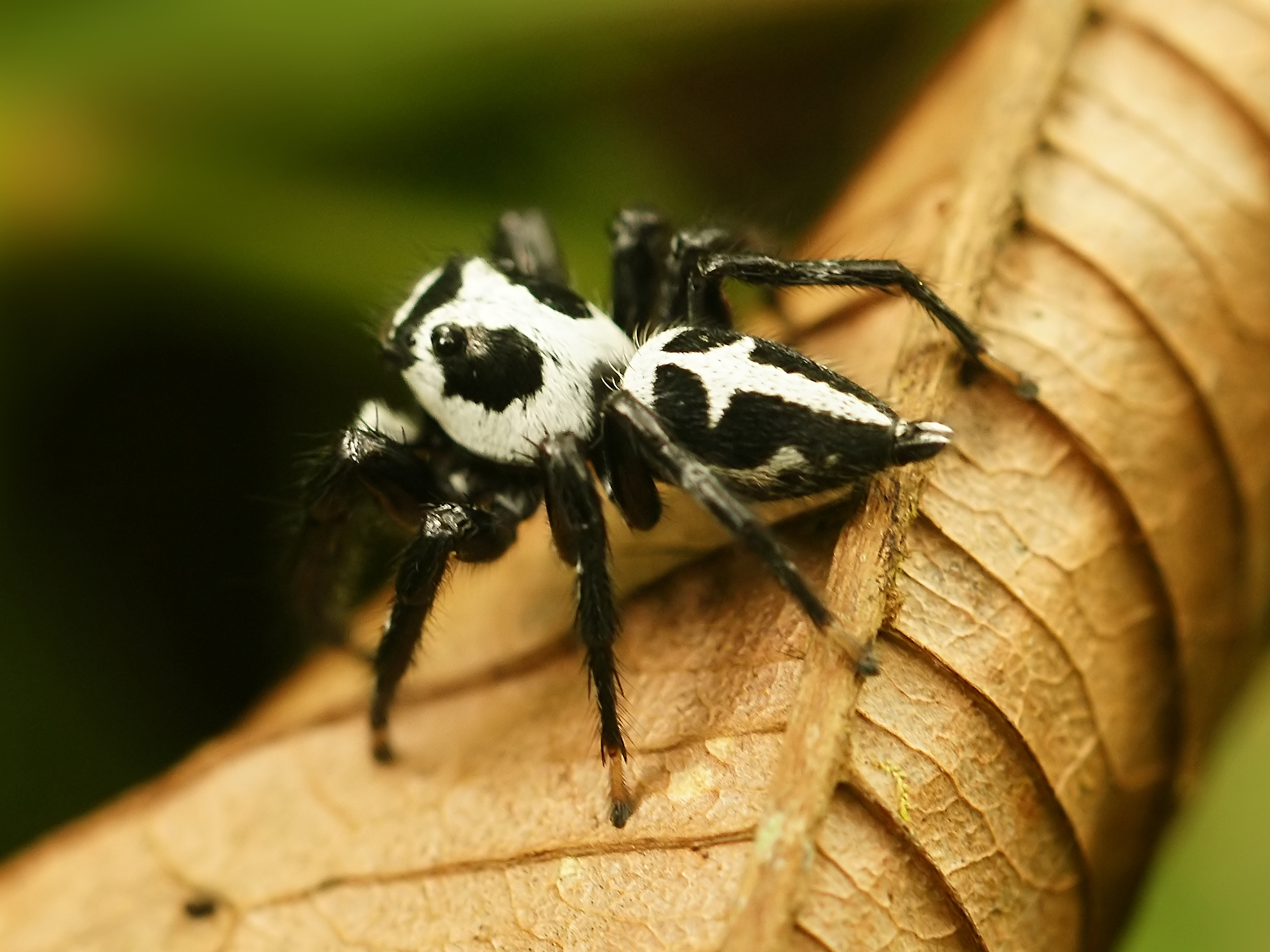 Endemic jumping spider at Rara Avis, Costa Rica